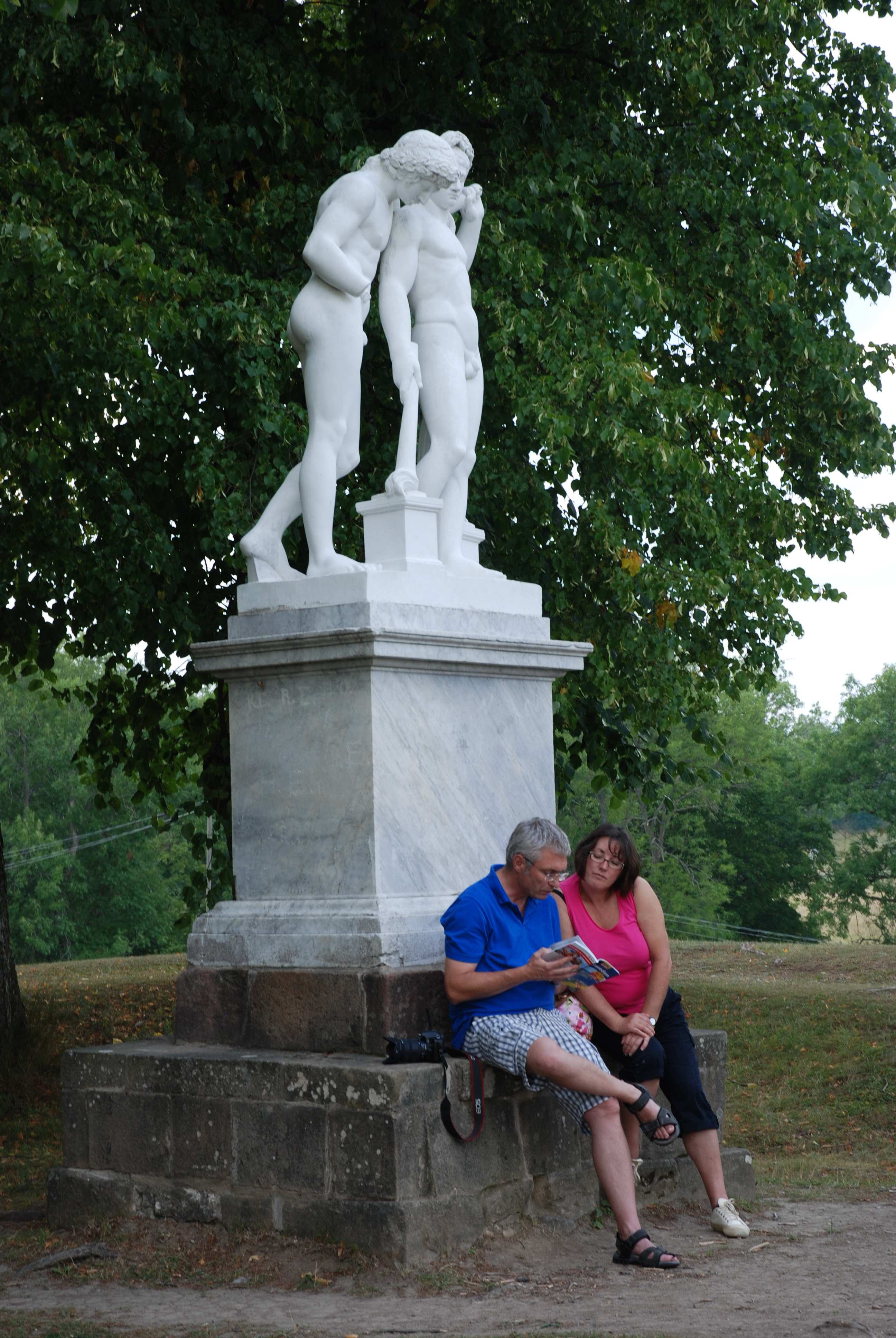 Kastor and Pollux, Drottningholm Castle Garden